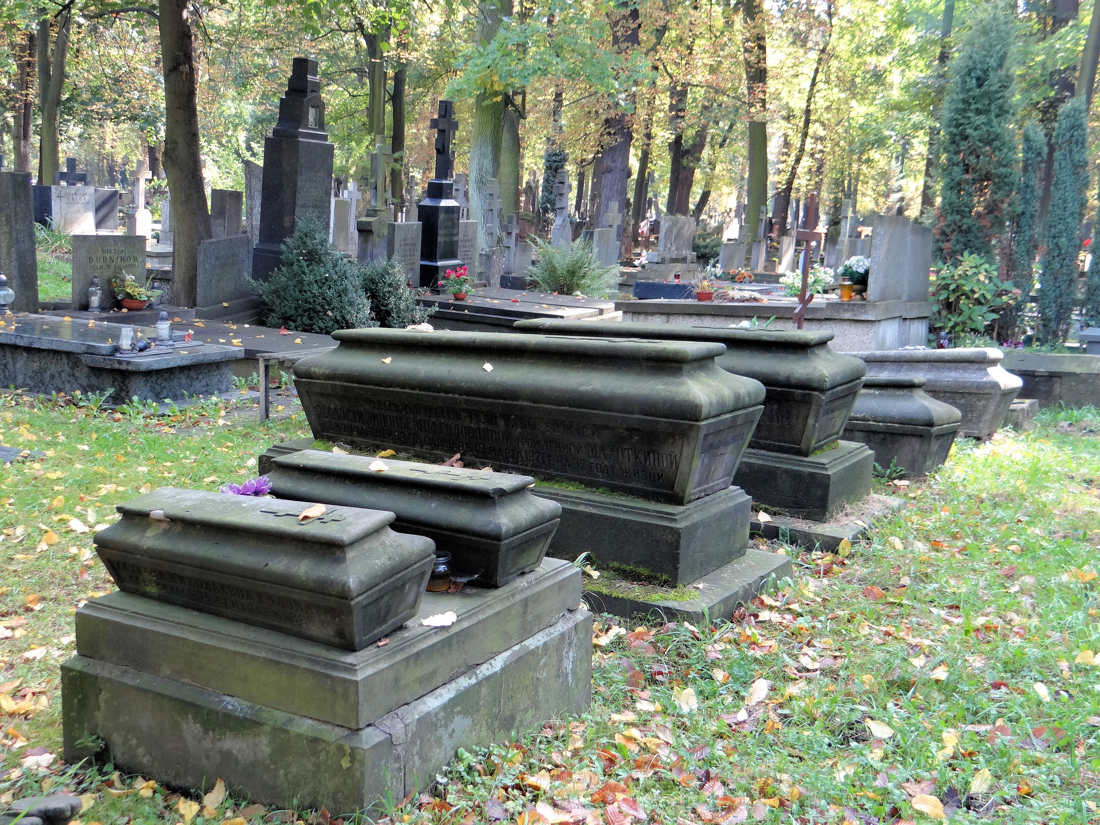 Orthodox cemetery in Wola